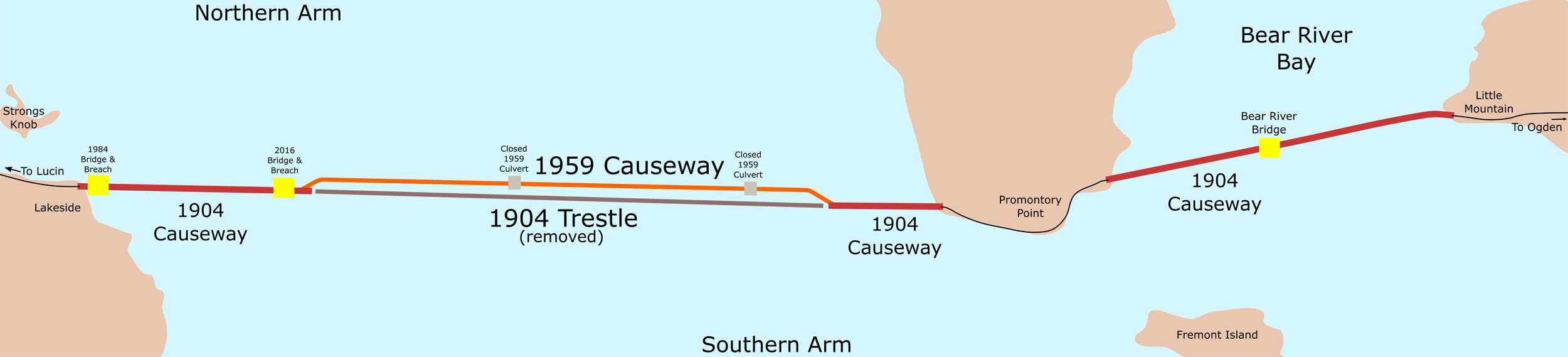 A map of the railroad causeway crossing the Great Salt Lake. The map shows past and present causeway parts, along with some geographical highlights of the area.